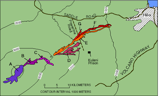 Map showing areas covered by ‘a‘ā lava flows during the eruption of Mauna Loa between March 24 and April 15, 1984.